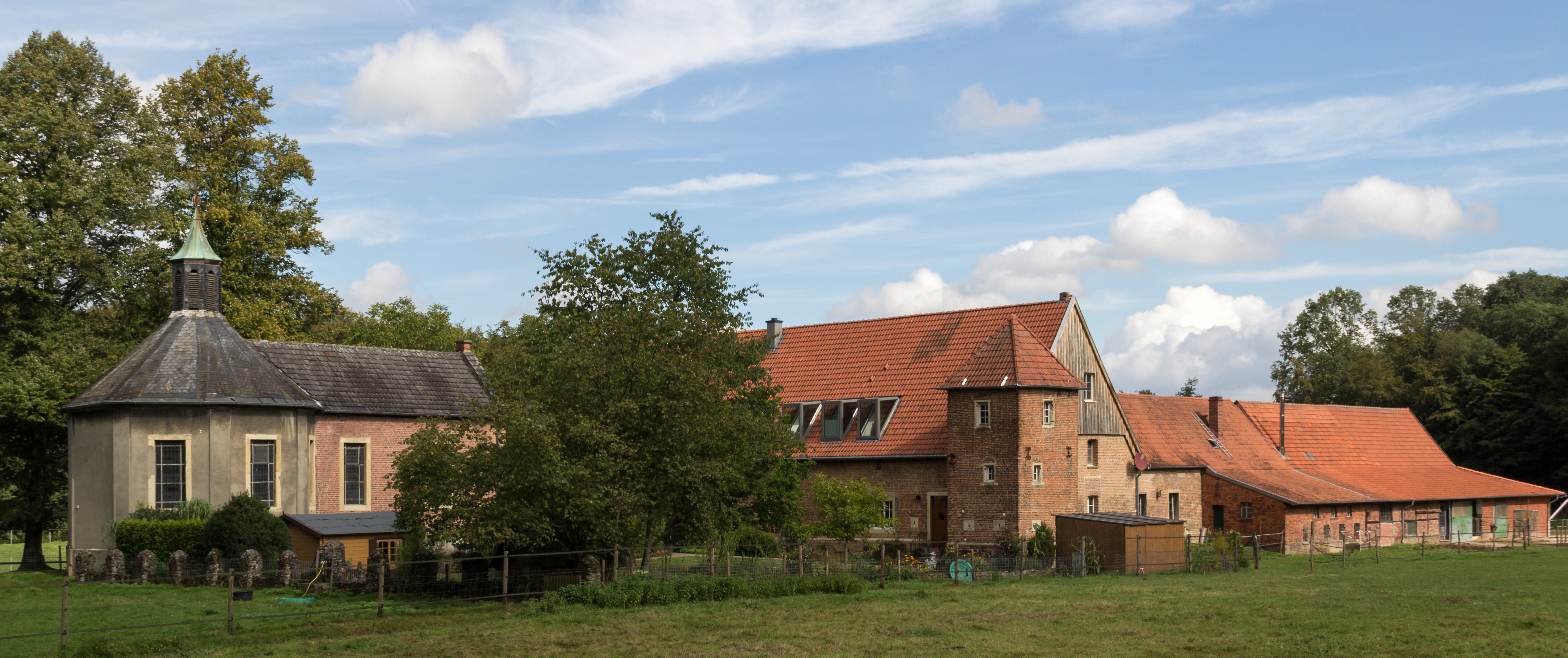 St. Mary's Chapel and Visbeck Manor in the Dernekamp hamlet, Kirchspiel, Dülmen, North Rhine-Westphalia, Germany This image shows a heritage building in Germany, located in the North Rhine-Westphalian city Dülmen (no. 35).